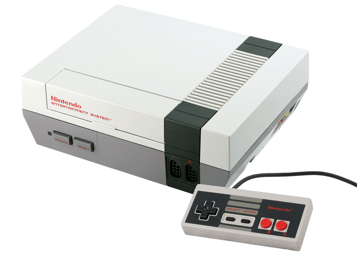 Nintendo NES (Nintendo Entertainment System) Console with controller